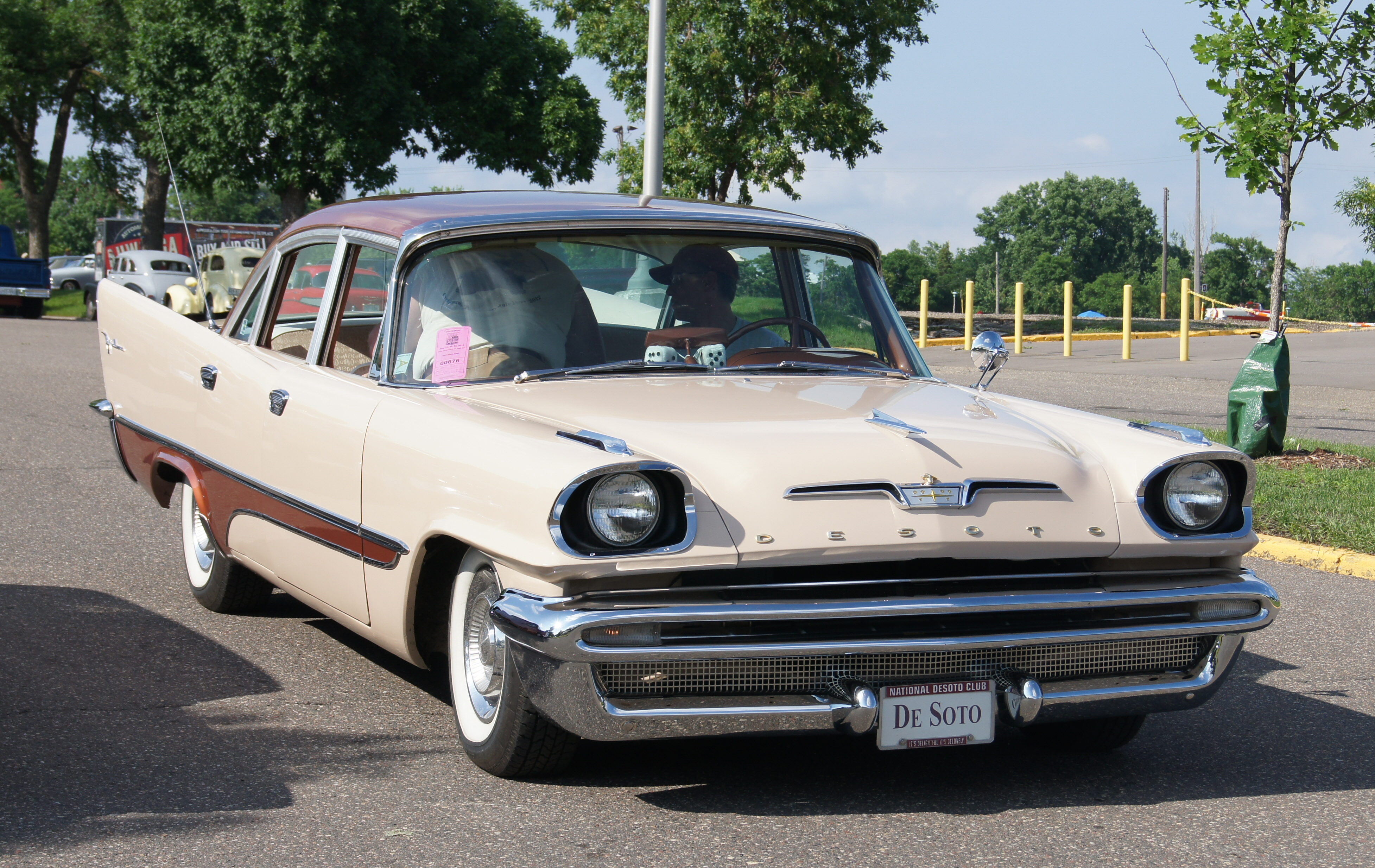 MSRA “BACK TO THE 50′s” 40th ANNIVERSARY June 21-23, 2013 State Fairgrounds St. Paul Minnesota More Car Pictures